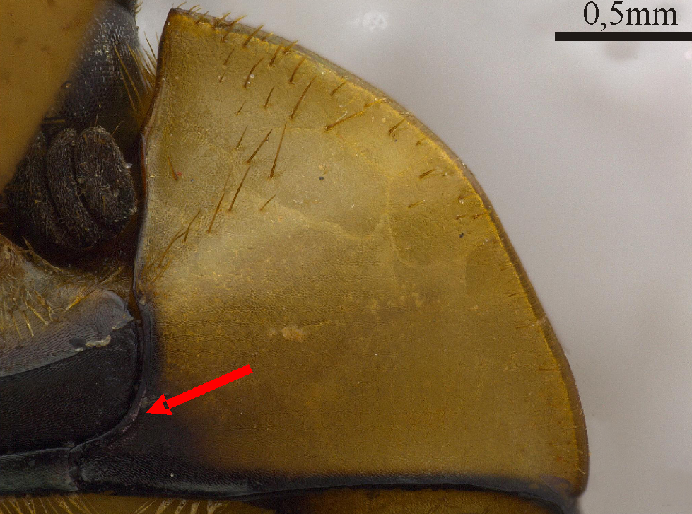 Scybalocanthon korasakiae: hypomeron with keel on internal border (arrow points to the keel)